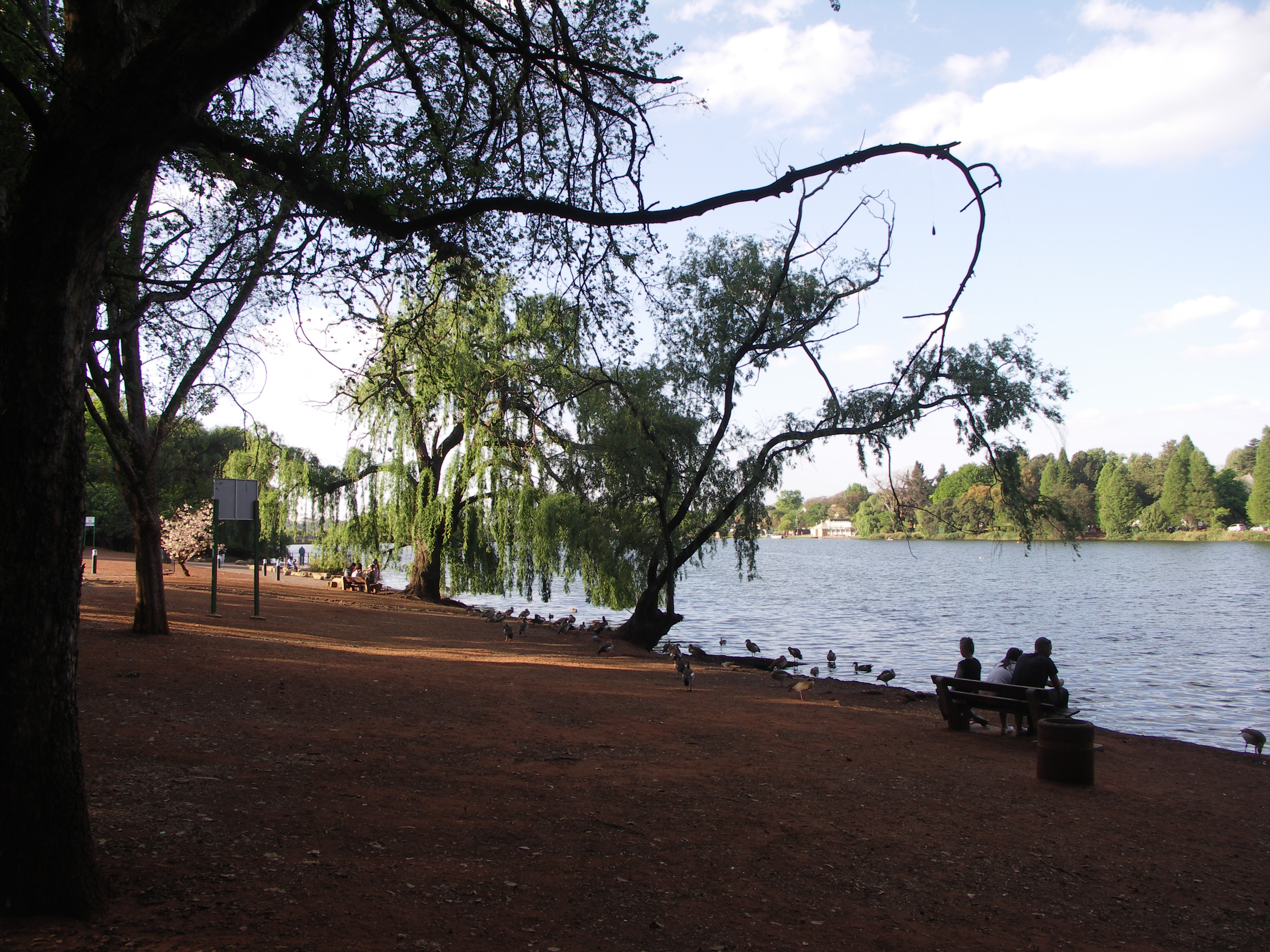 On the shore of Emmerentia Dam at Johannesburg Botanical Garden.